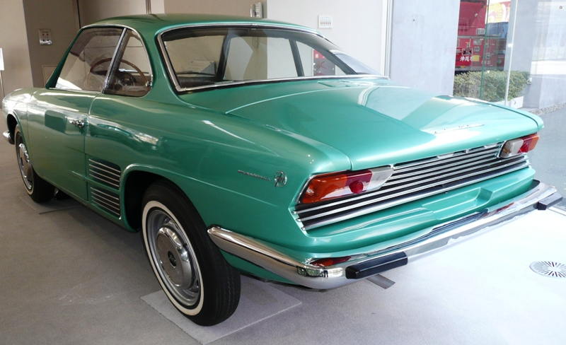 Hino Contessa 900 Sprint rear.